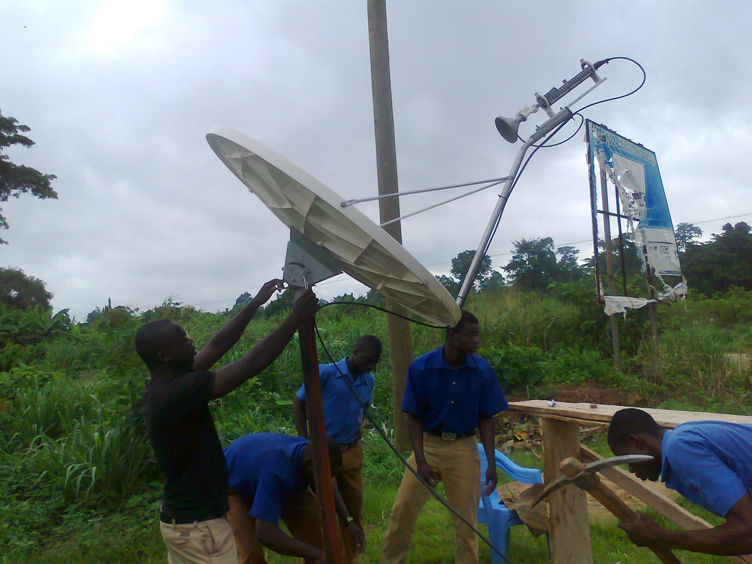 Installing V-Sat. This is an image of "African people at work" from Ghana